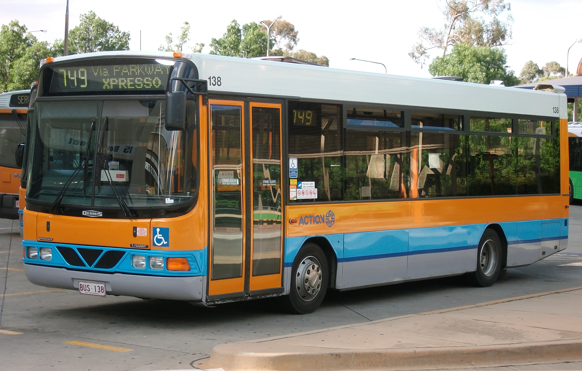 Wright 'Crusader' bodied Dennis Dart SLF operated by ACTION (BUS 138) laying over at the Woden Interchange.